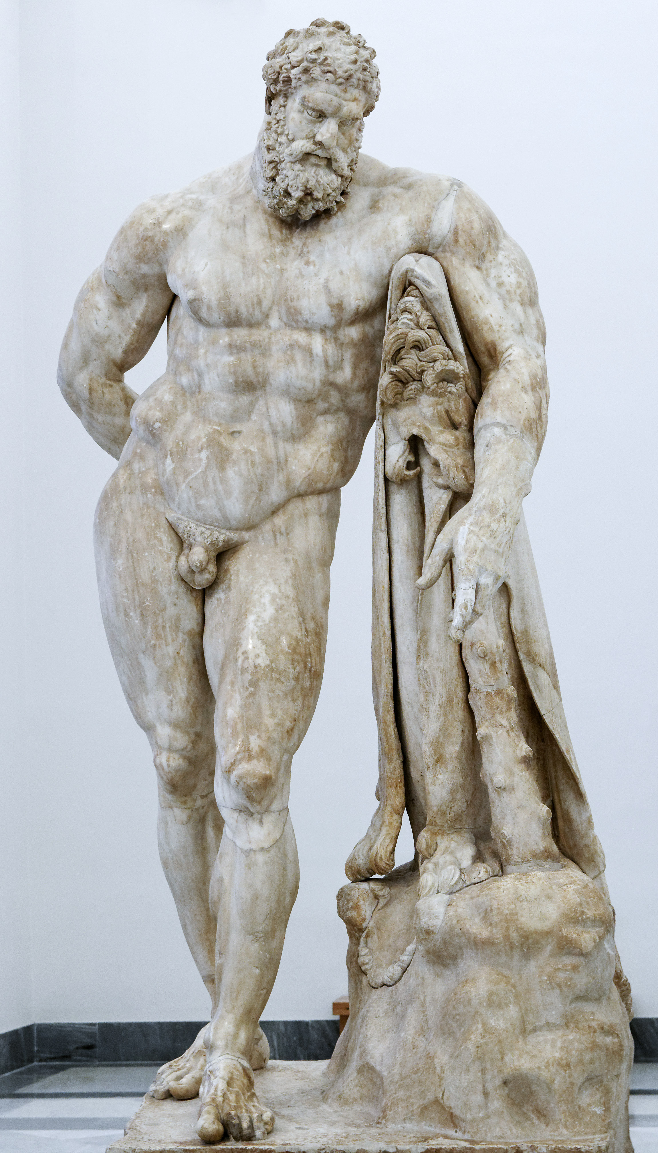 Statue of Herakles at rest carrying fruit in his right hand. Roman copy of the Imperial era after a Greek original of the Early Hellenistic era; the left forearm is restored in plaster.